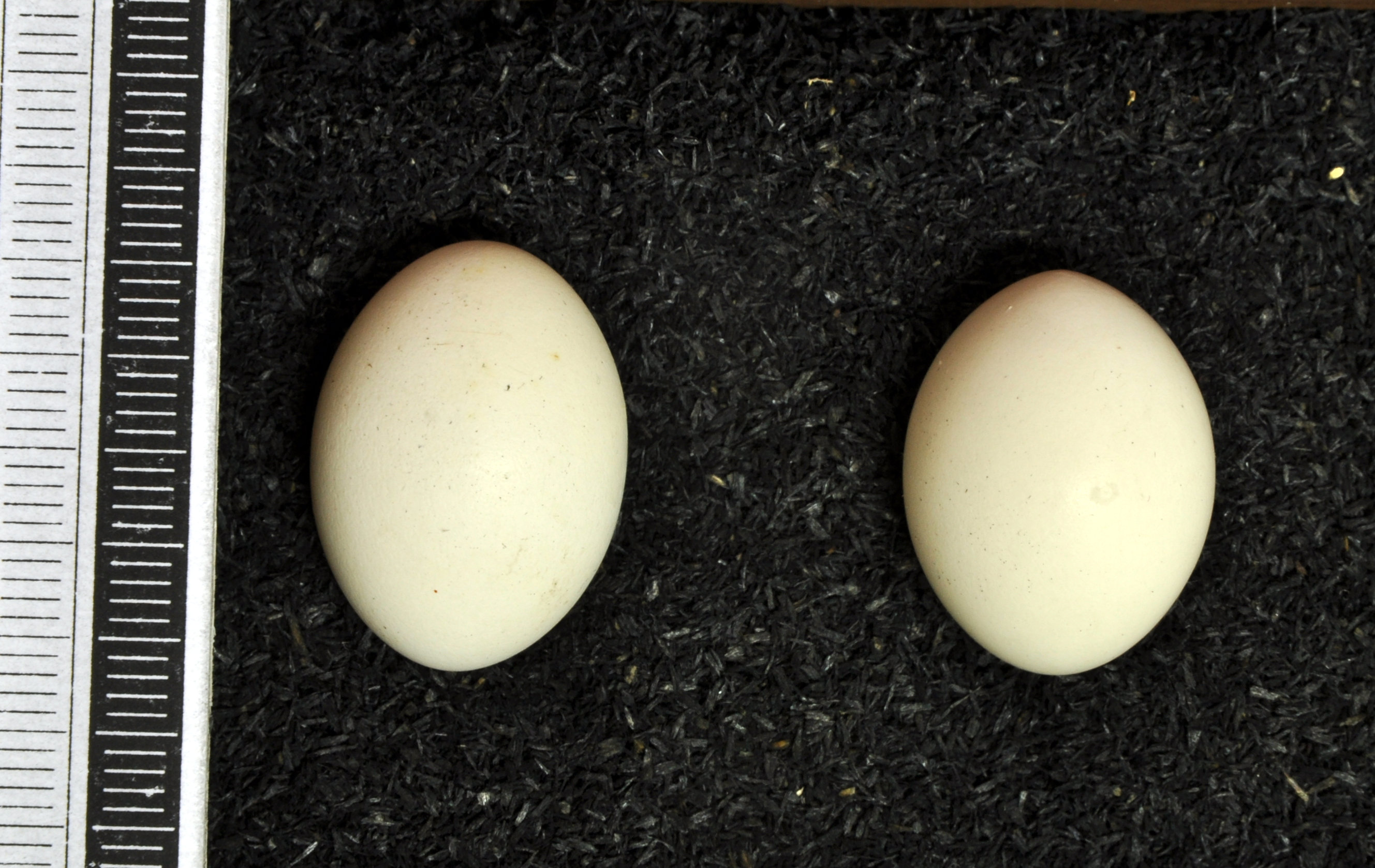 Blue-spotted wood dove Turtur afer , egg, Coll. Museum Wiesbaden